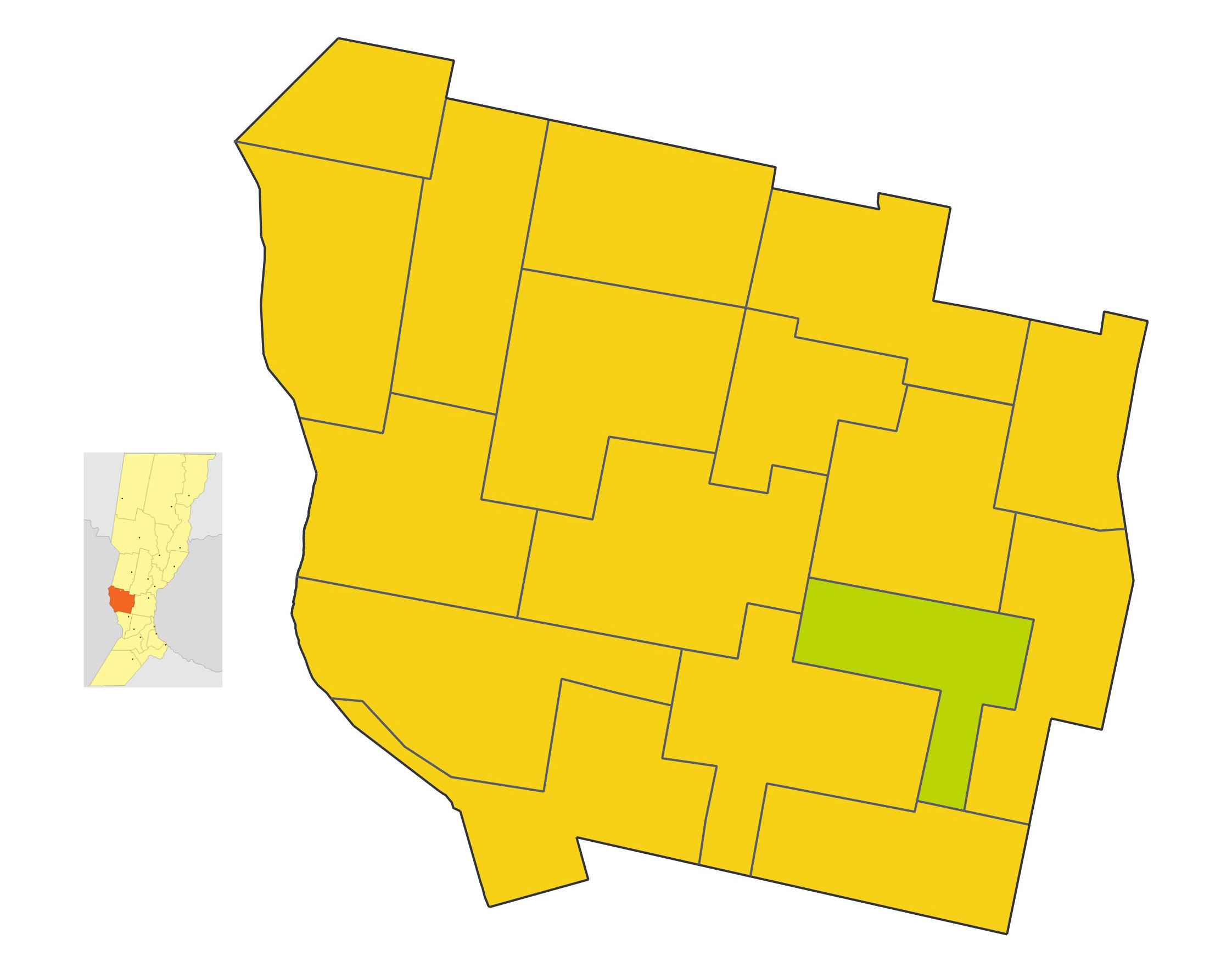 Map of the comuna de Casas in San Martin department, Santa Fe province, Argentina